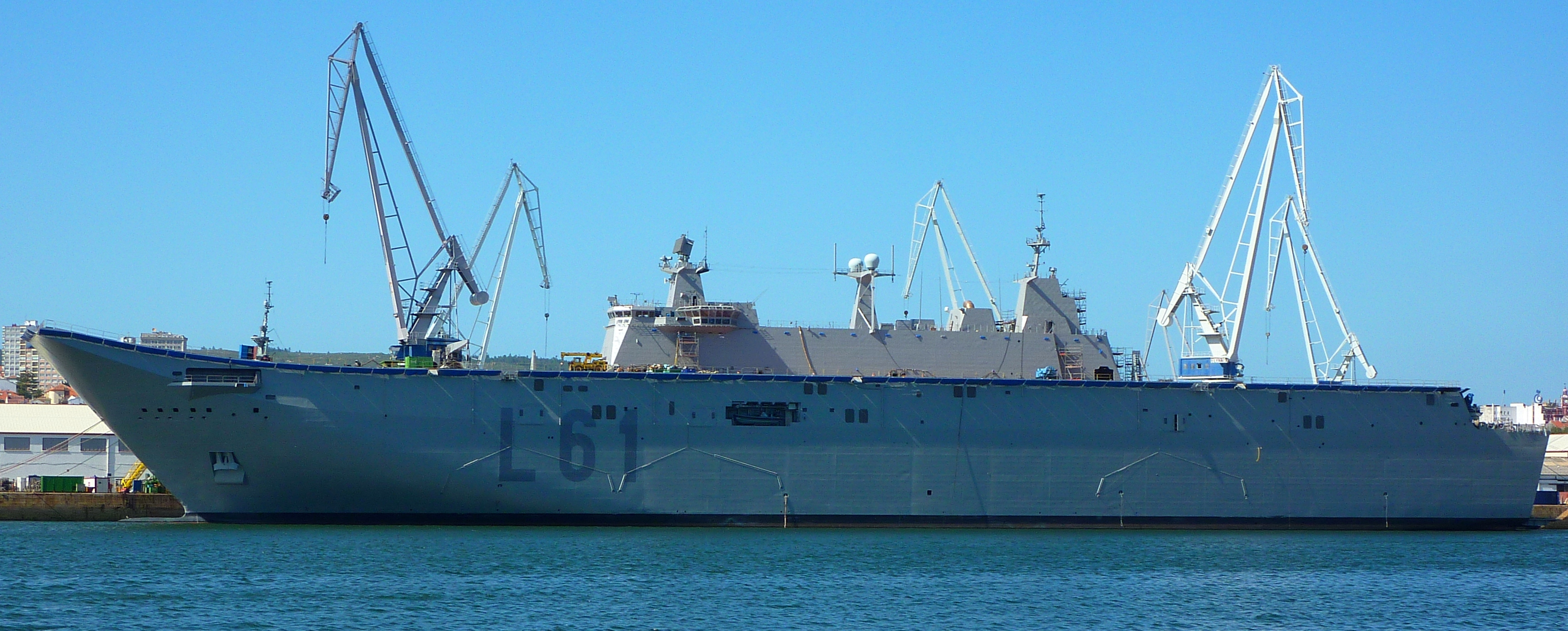 Spanish Navy LHD ship "Juan Carlos I" (L-61) on afloat completion stage.